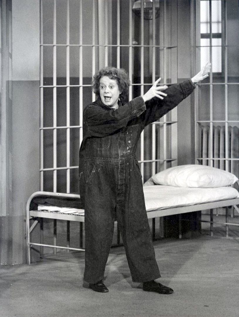 Actress Elsa Lanchester guest starring in an episode of Here's Lucy in 1973